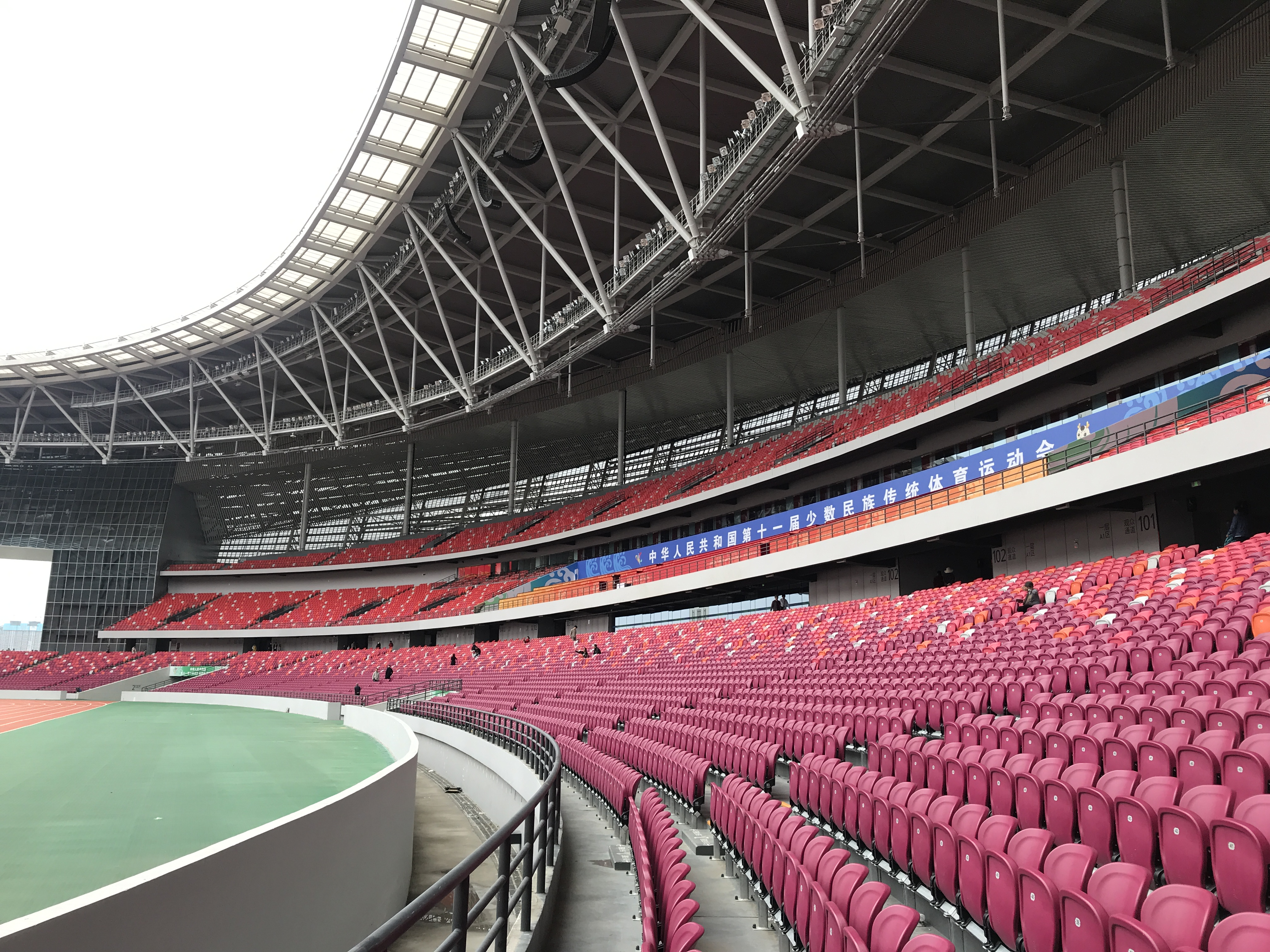 Stand of Zhengzhou Olympic Sports Center Stadium